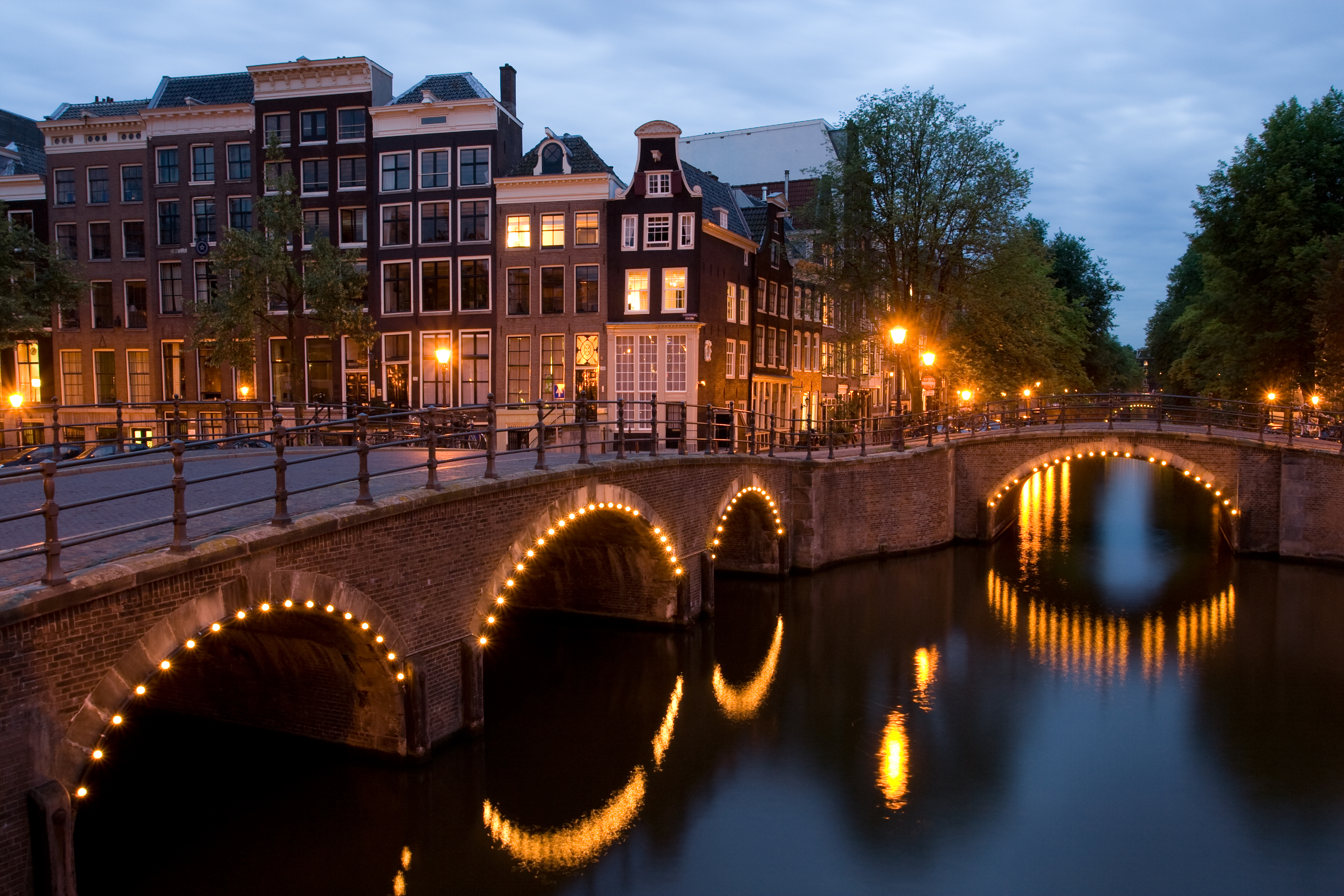 A view of the Reguliersgracht on the corner with the Keizersgracht, in Amsterdam, the Netherlands at dusk.